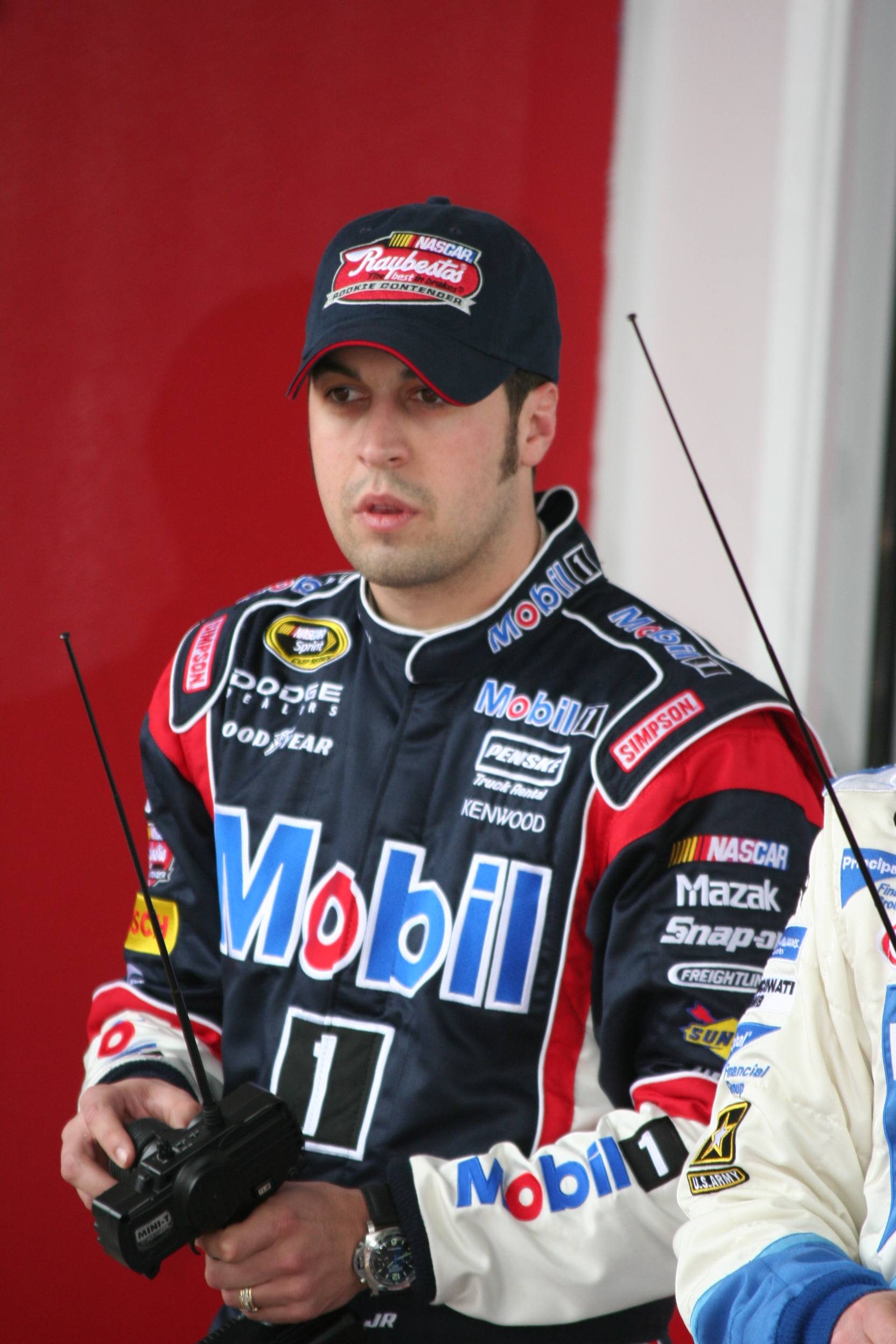 Shot by The Daredevil at Daytona during Speedweeks 2008